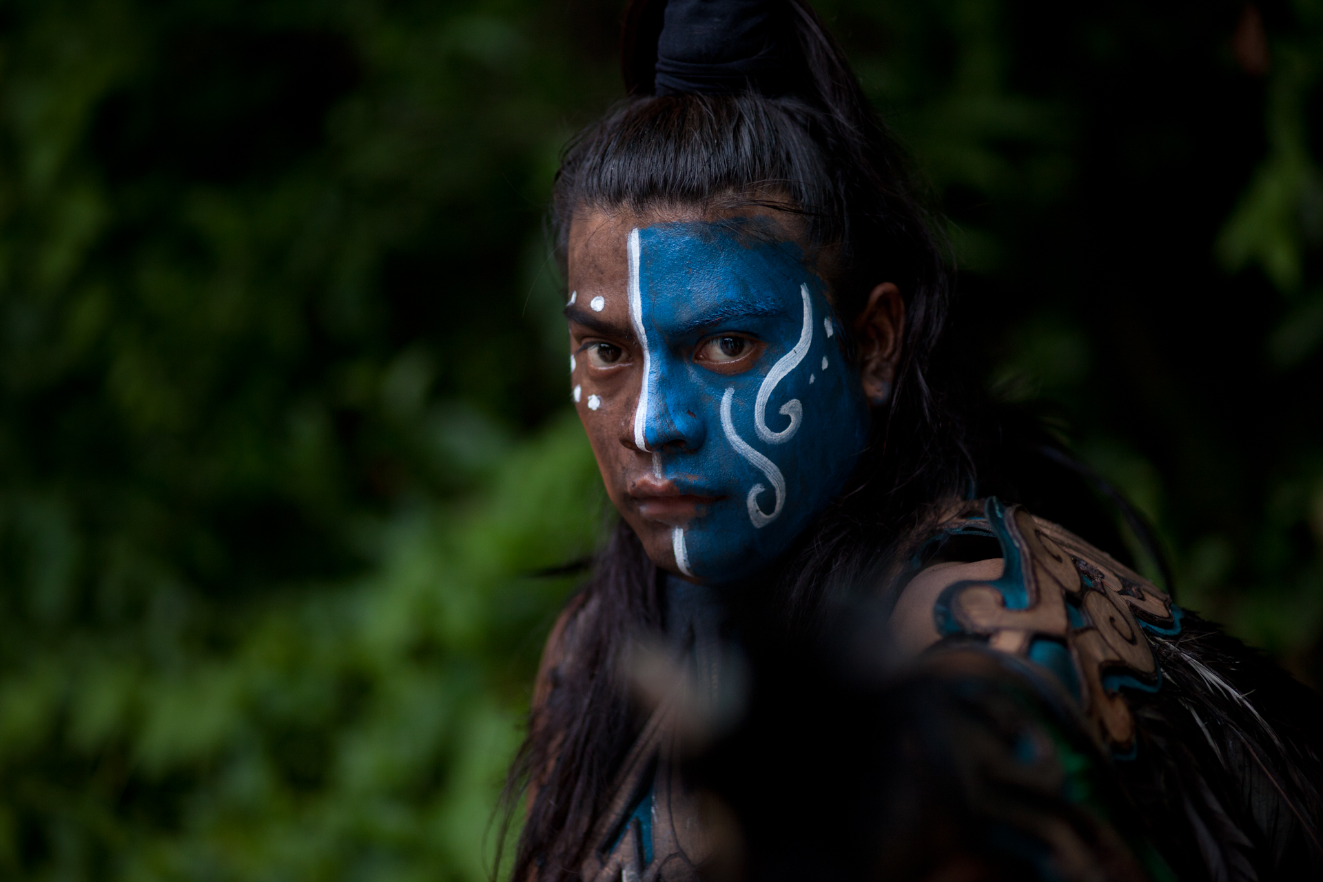 The Maya People, Quintana Roo, Mexico